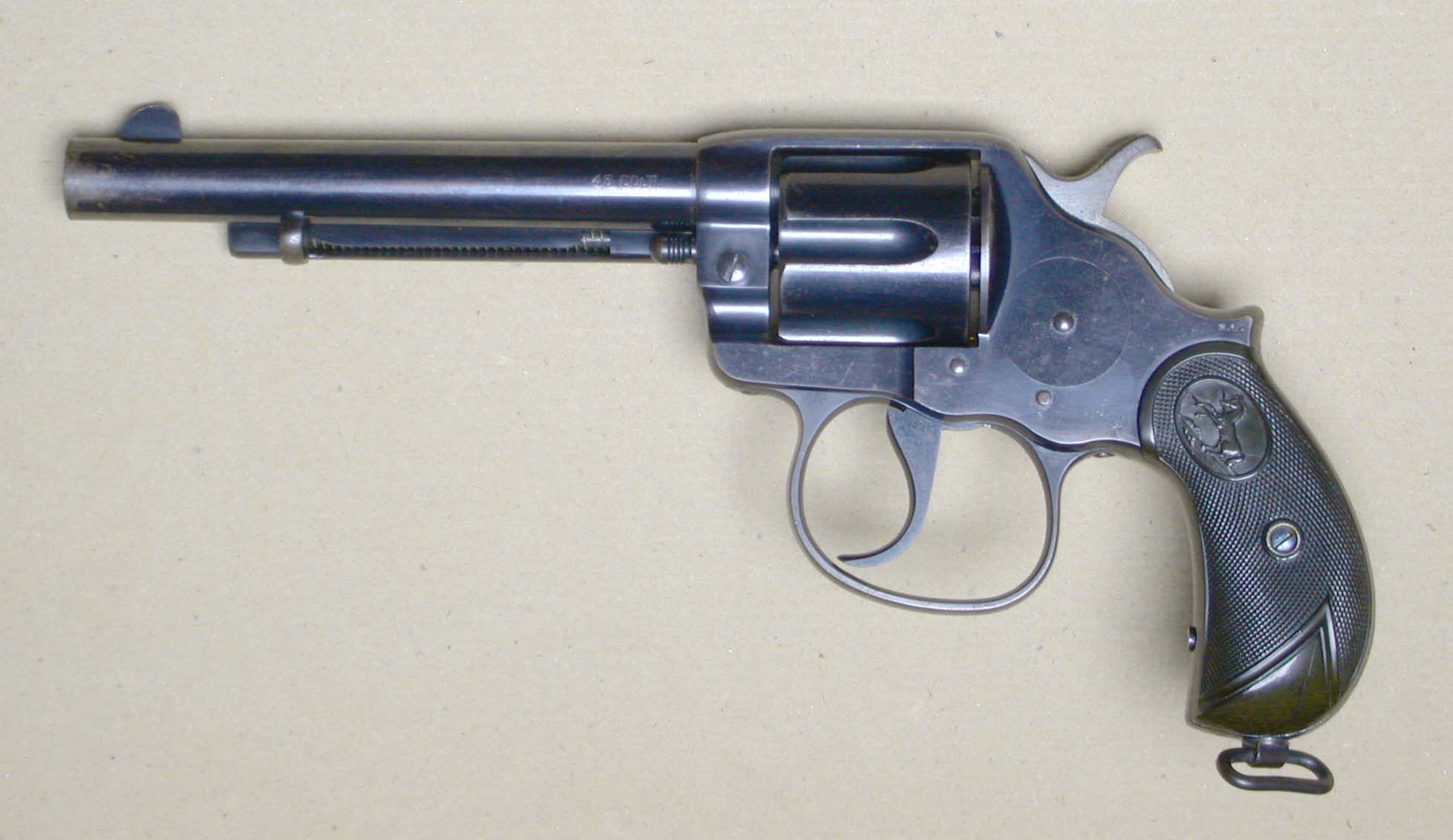 Colt Double Action Philippine Model 1902